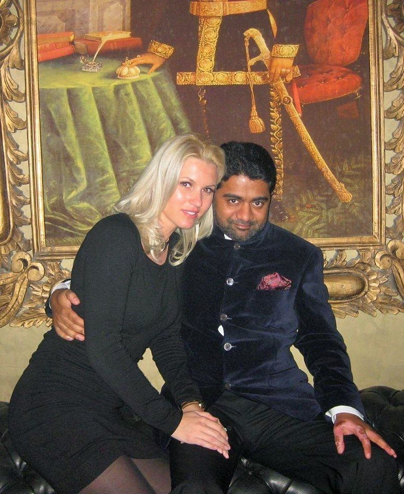 Abhishek Verma & his wife Anca Verma photo from their twitter profile - copyright free